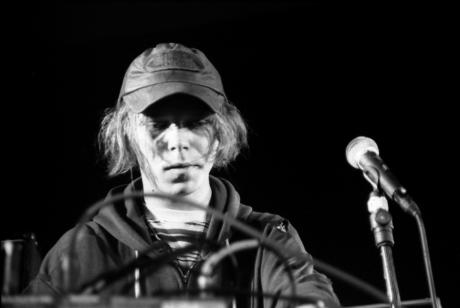 blackdicebw02